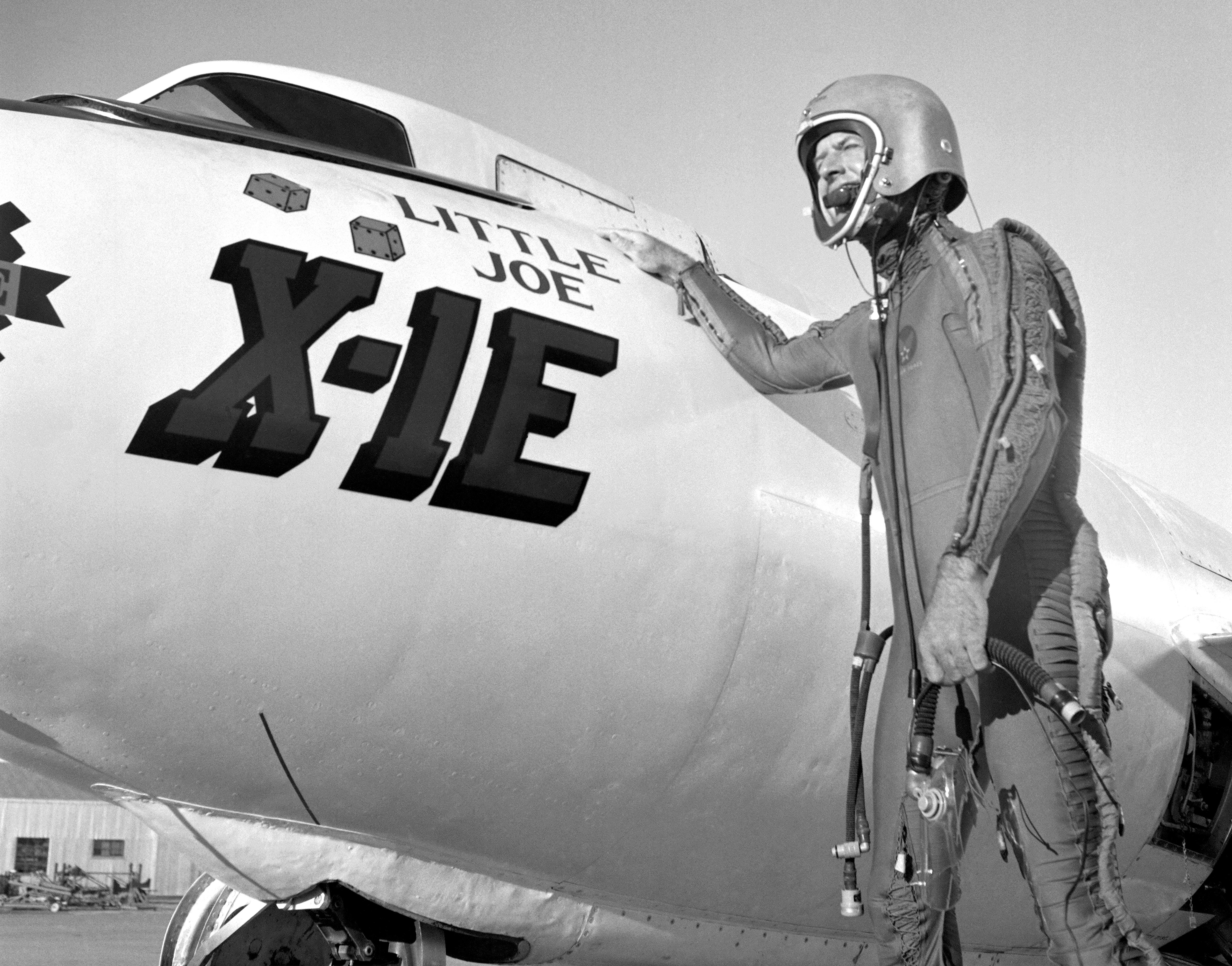 A photo of the nose section of the X-1E with pilot Joe Walker suited for a flight at the NASA High-Speed Flight Station, Edwards, California. The dice and Little Joe are prominently displayed under the cockpit area. NASA employees and the crew chief of the plane worked long hours preparing a craft for flight. A break from the tedious task was a welcome reprieve at times; hence the private joke between a crew and their pilot evolved. If you know the craps game you've figured it out! (Little Joe is a dice player's slang term for two deuces.) Five years later when Walker reached 354,200 feet in the X-15, that aircraft carried similar artwork - "Little Joe the II." Walker is shown in the photo above wearing an early partial pressure suit. This protected the pilot if cockpit pressure was lost above 50,000 feet.